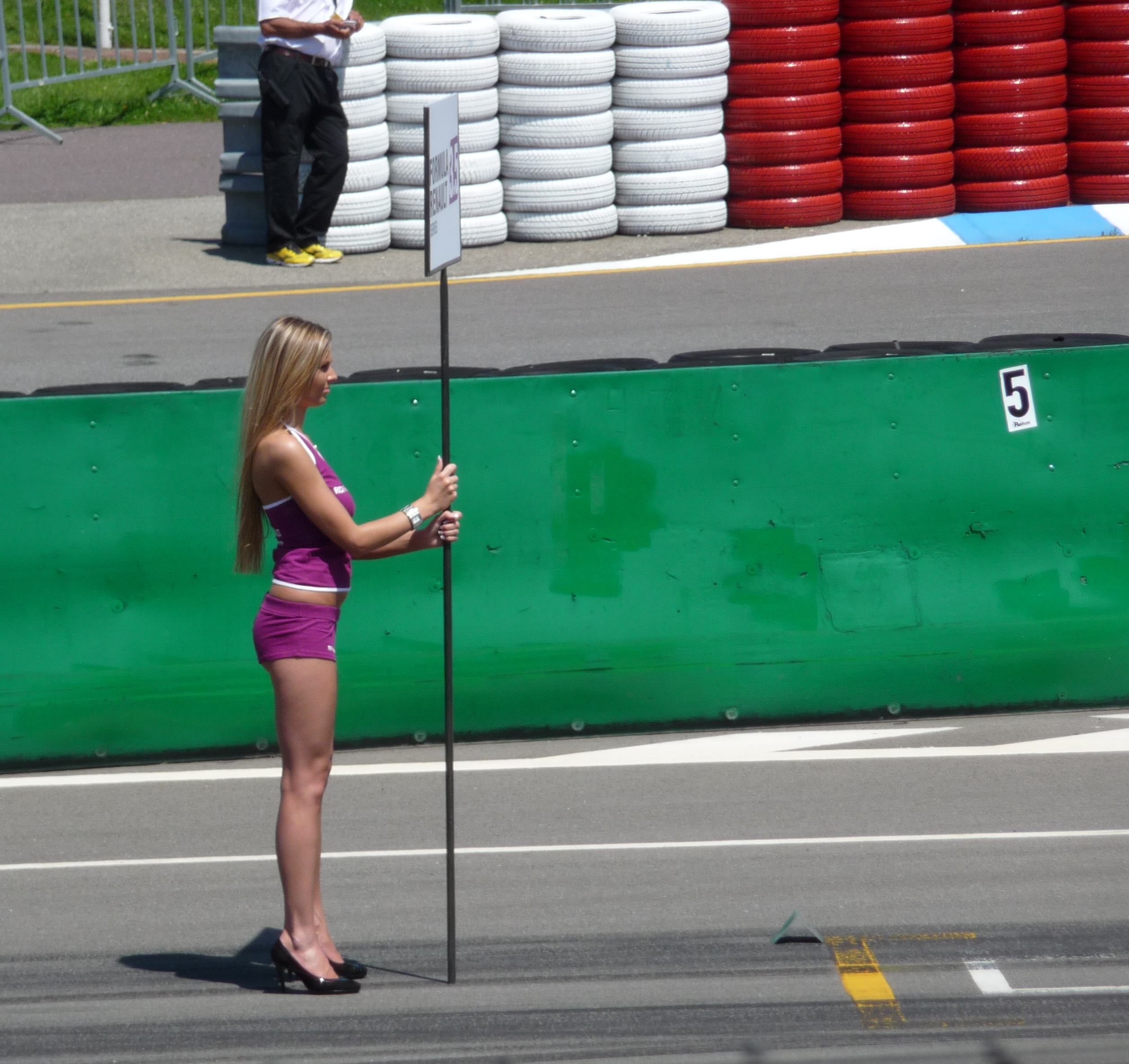 Pitbabe, Formula Renault 3.5 Series, 2nd race, 2010 Brno World Series by Renault -10-5-3-2◄ ►+2+3+5+10